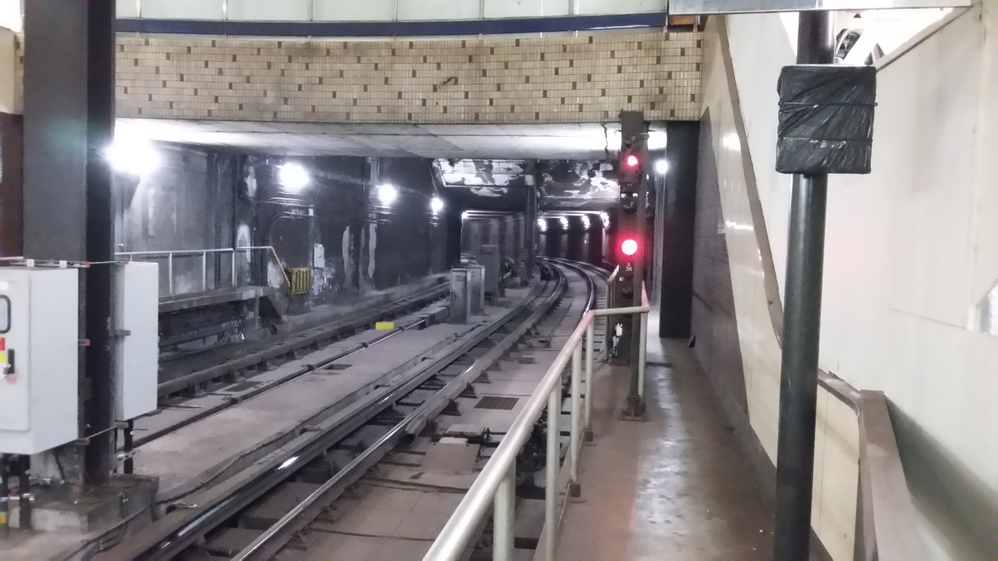 View from the southern end of the southbound platform at St. Clair West station. The tunnel curves to the east south of the station. Signal SP77/X38 showing red over red can be seen.